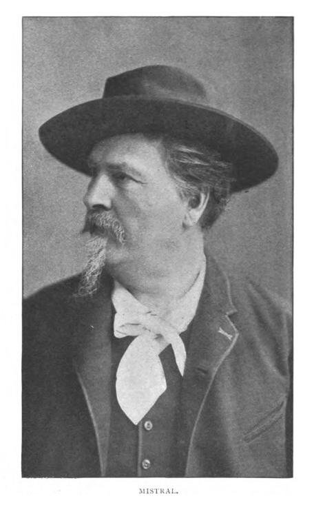 Frédéric Mistral (1830 - 1914)